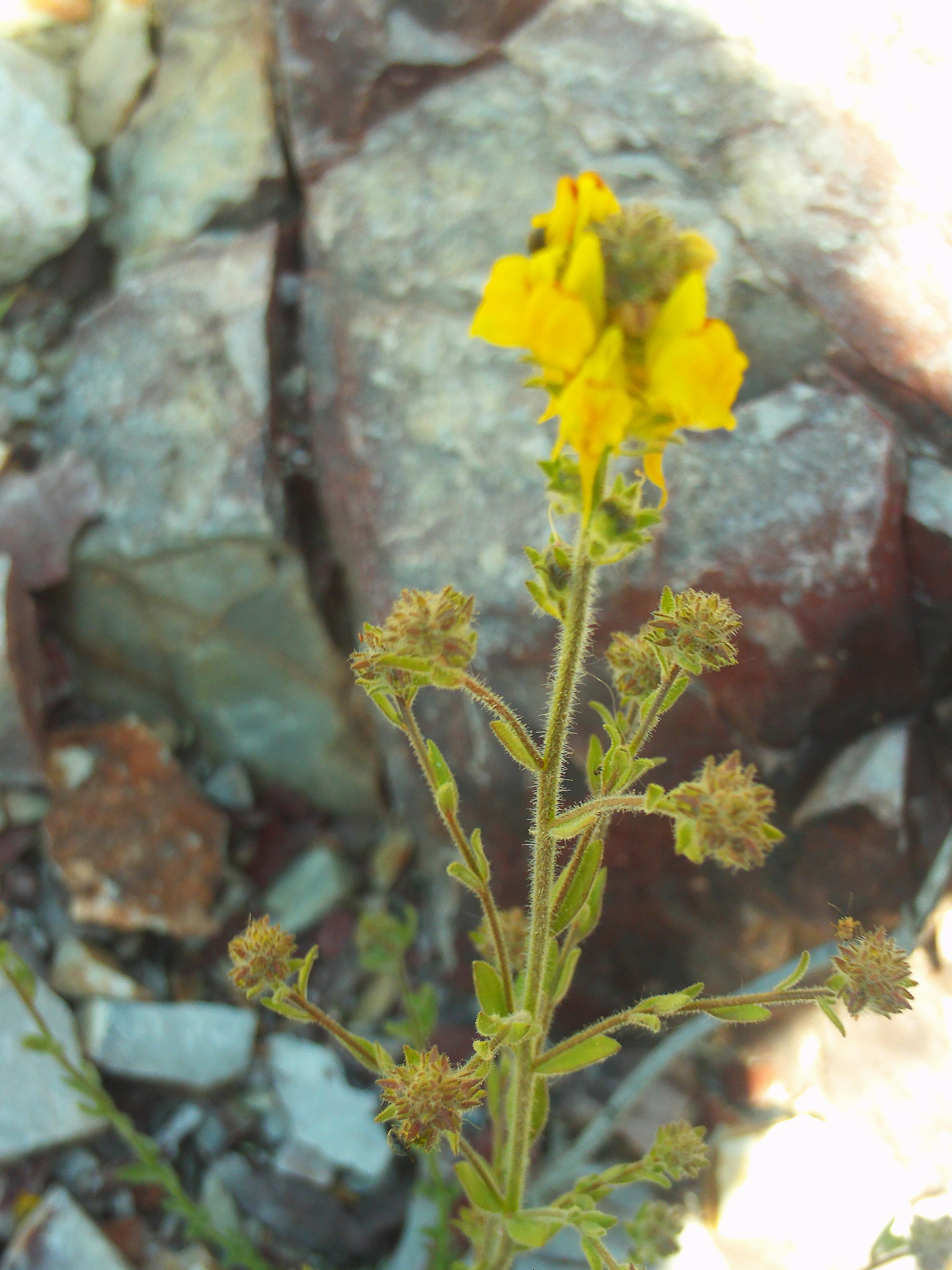 Linaria saxatilis close up, in Sierra Madrona, Spain.